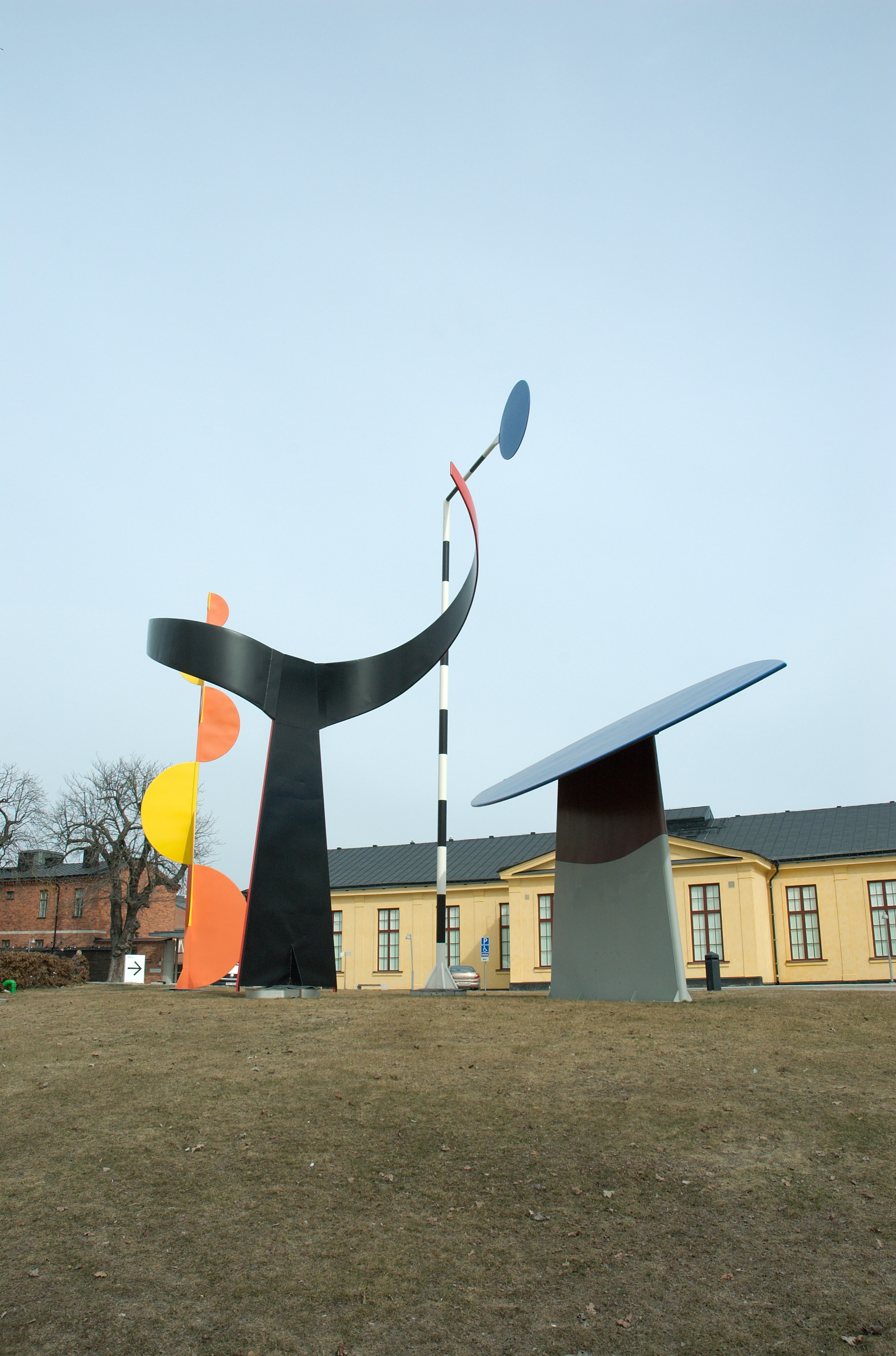 sculpture The Four Elements in Stockholm/Sweden